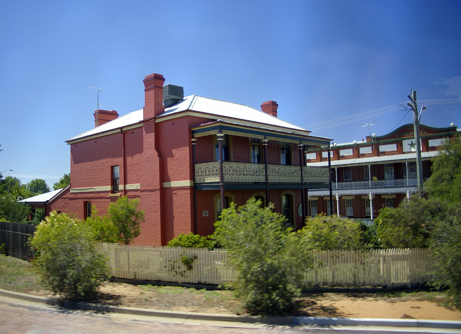 Former Station Masters Residence at Narrandera.